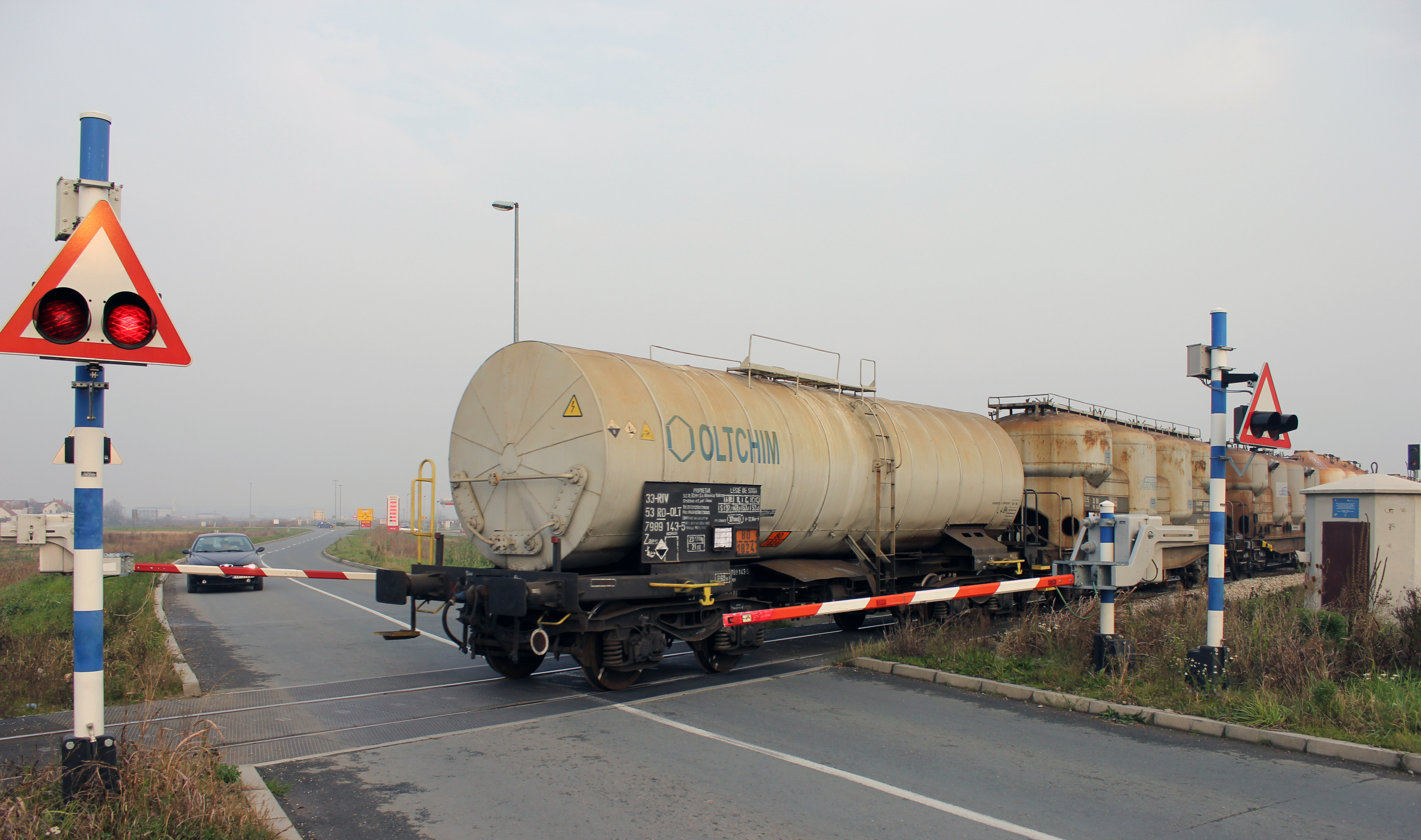 Freight train at Šabac passing over railroad crossing.